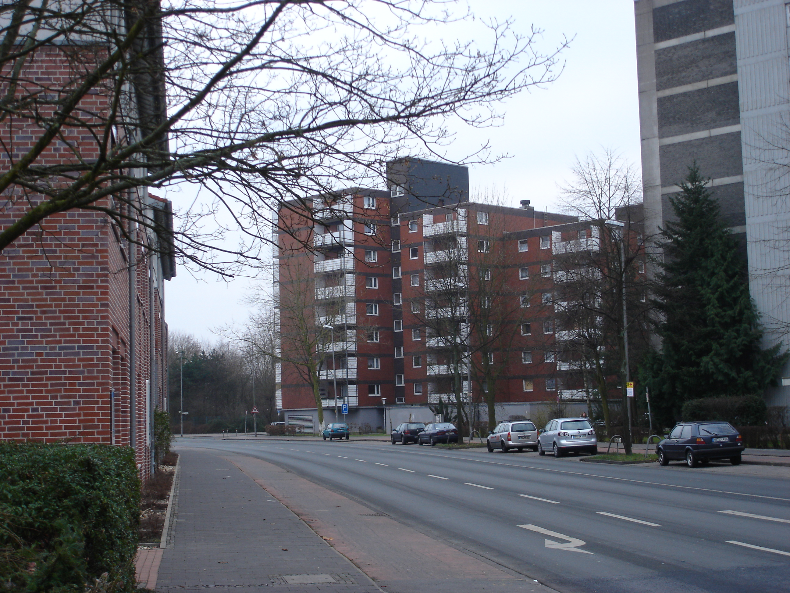 View on the street "Am Burloh" in Kinderhaus, a borough of Münster, Westphalia, Germany